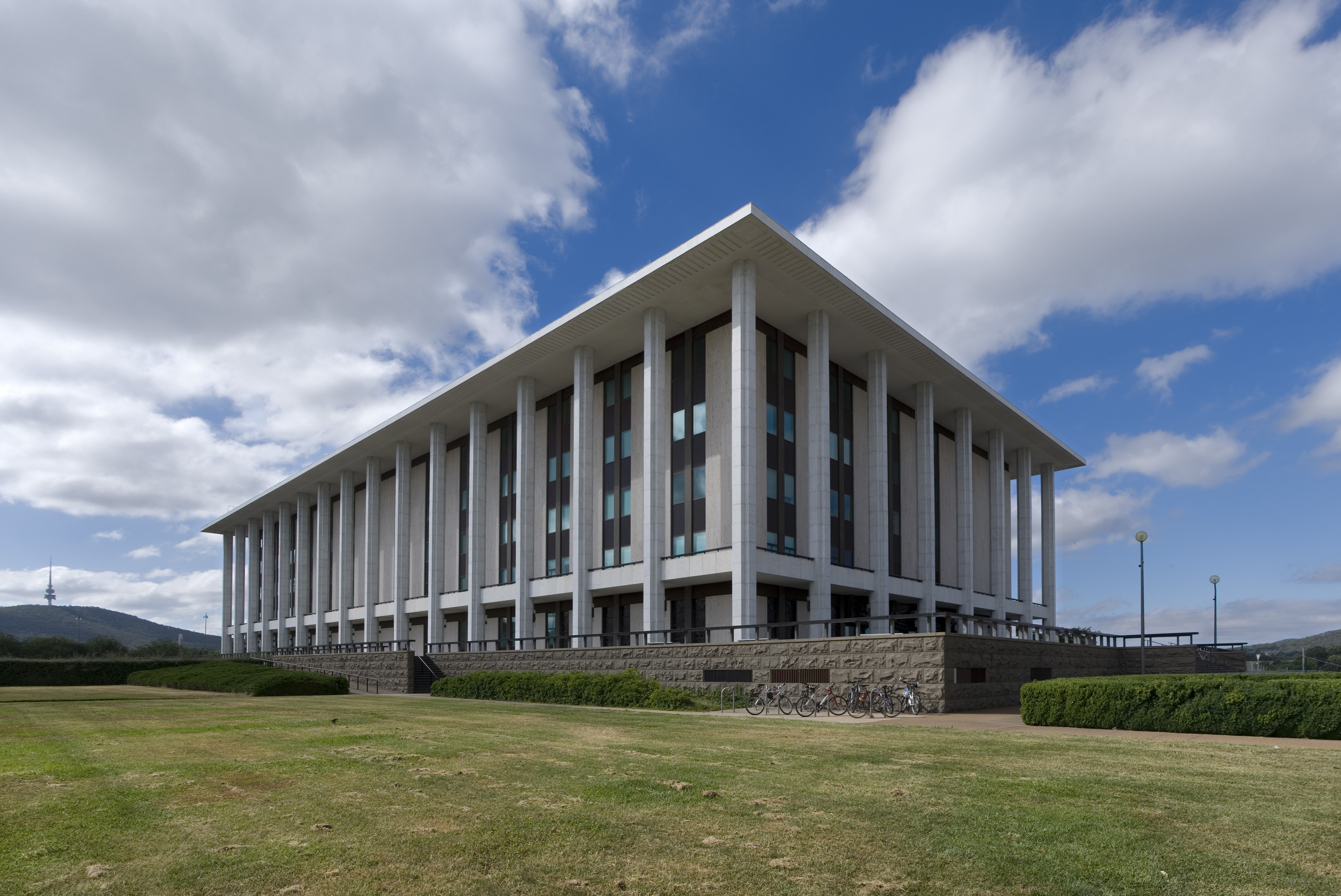 National Library of Australia